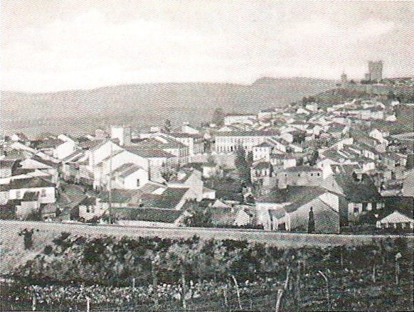 View of the city of Braganza, in Portugal; this photograph was taken during the first years of the Portuguese Republic, founded in 1910. The rail line in foreground is part of the the Tua Railway.